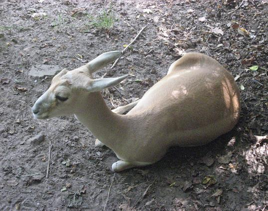 Goitered gazelle lying down in Zoo Parc Overloon